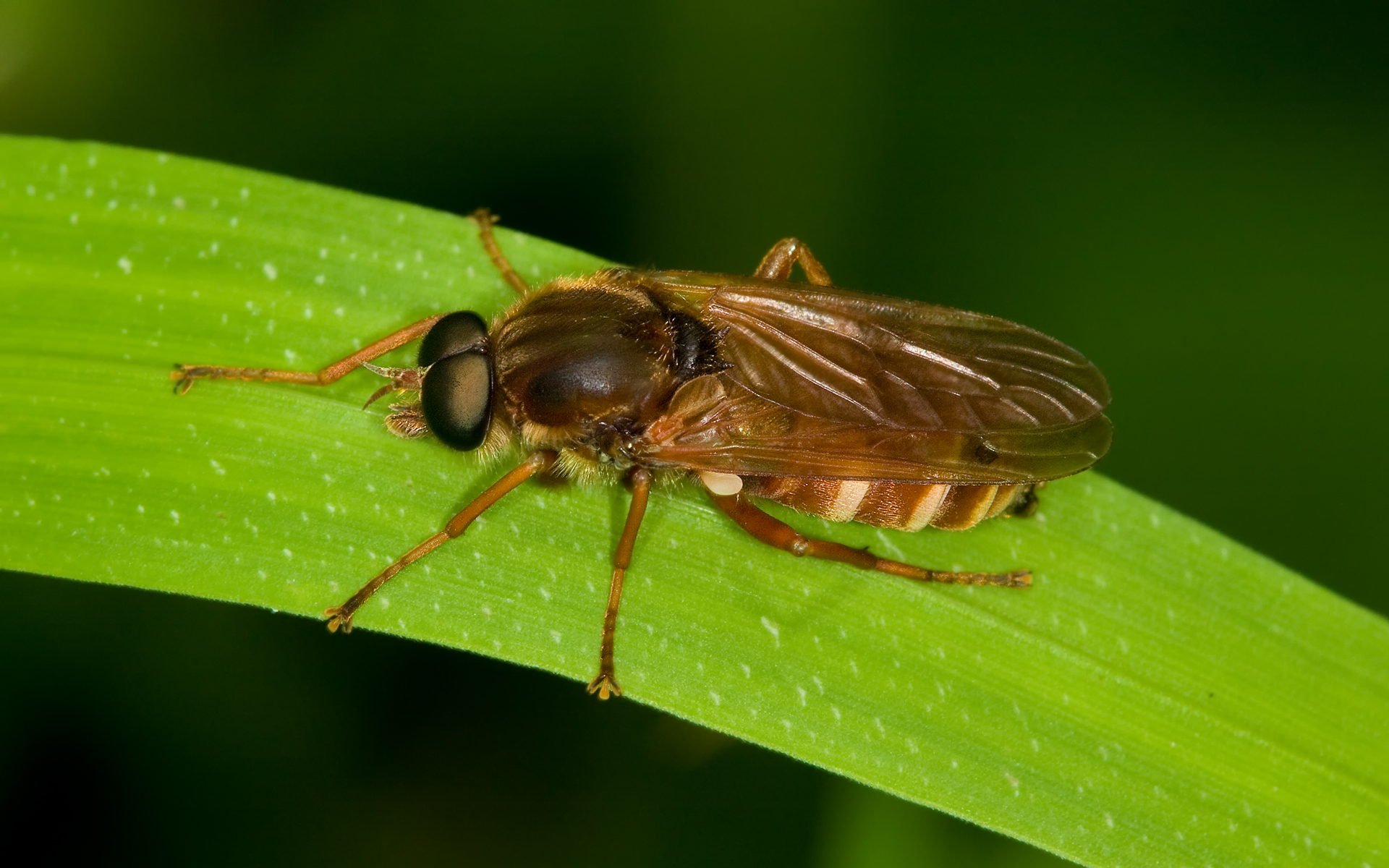 Awl-fly (Coenomyia ferruginea), male.